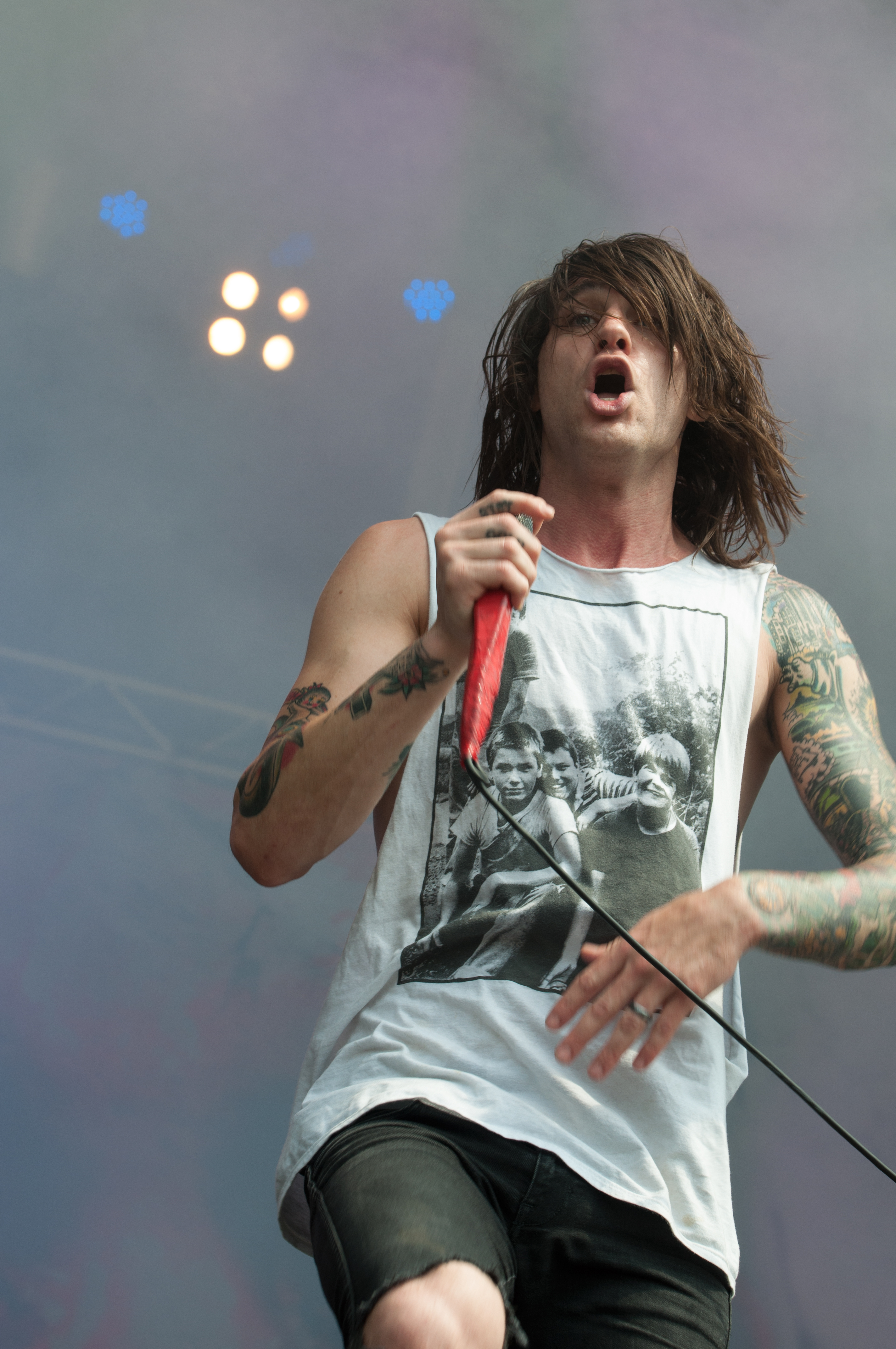 Blessthefall at Vainstream Rockfest 2014